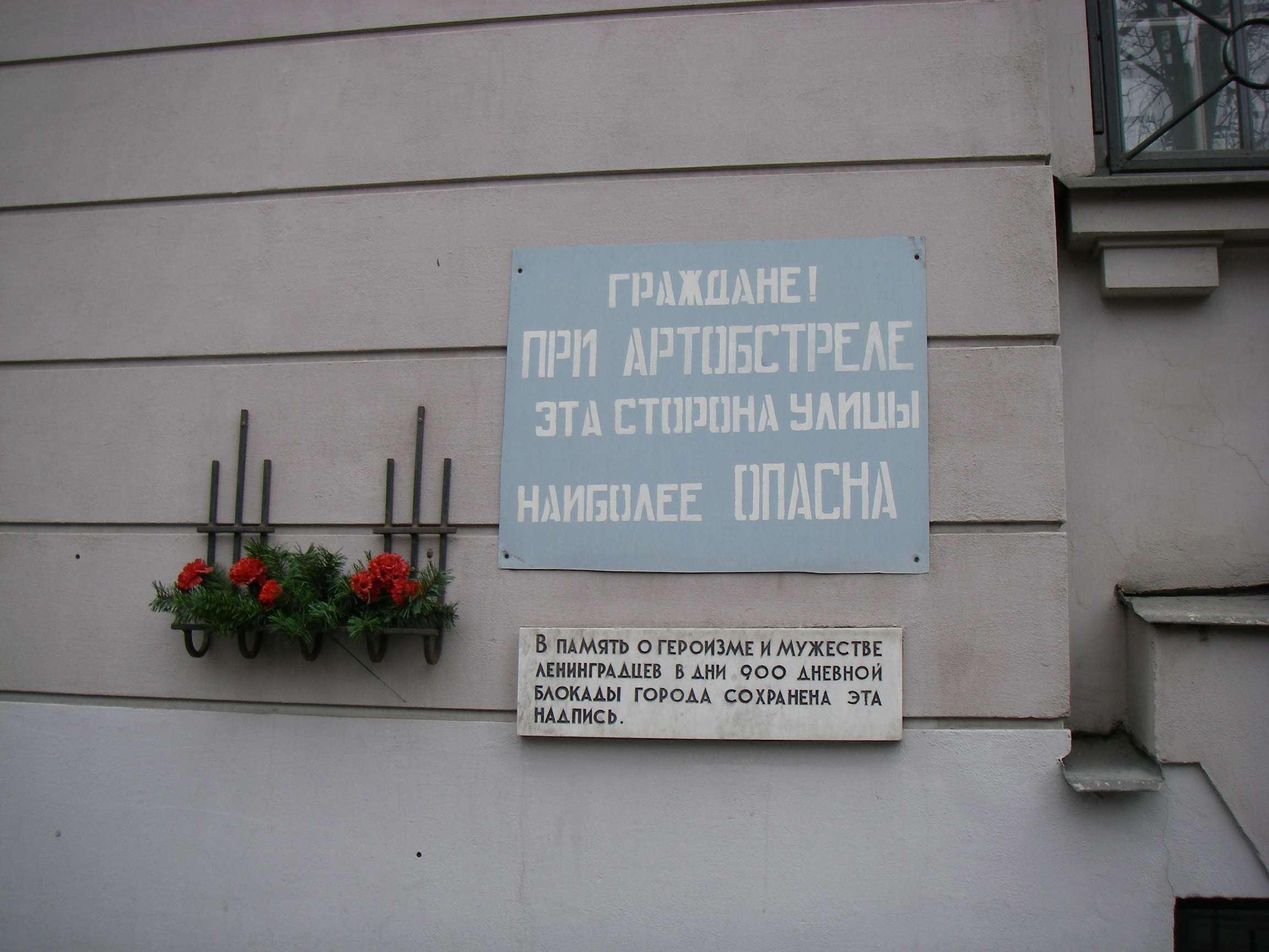 Memorial about Siege of Leningrad, St. Peterburg, V.O. 22 Liniya, 7